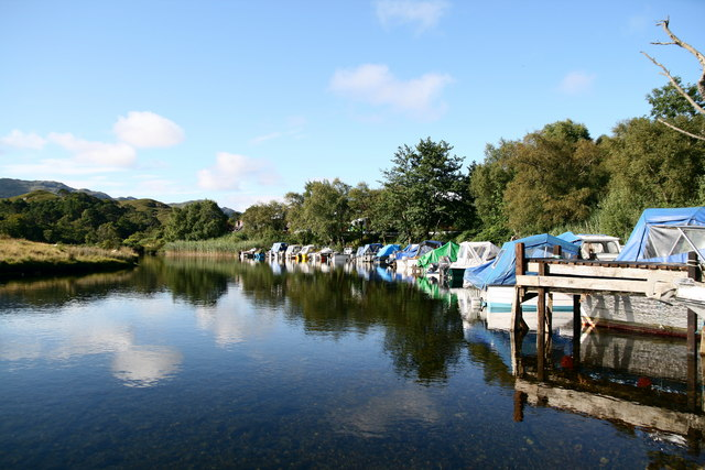 Jetty on River Morar